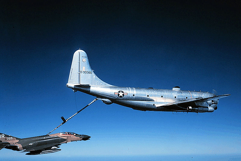 181st Air Refueling Squadron KC-97L Stratotanker 53-0360 refueling an 81st Tactical Fighter Wing F-4E. 360 was retired in 1976, it is now on static display at Air Park, Malmstrom AFB Montana Museum, marked as 52-2638